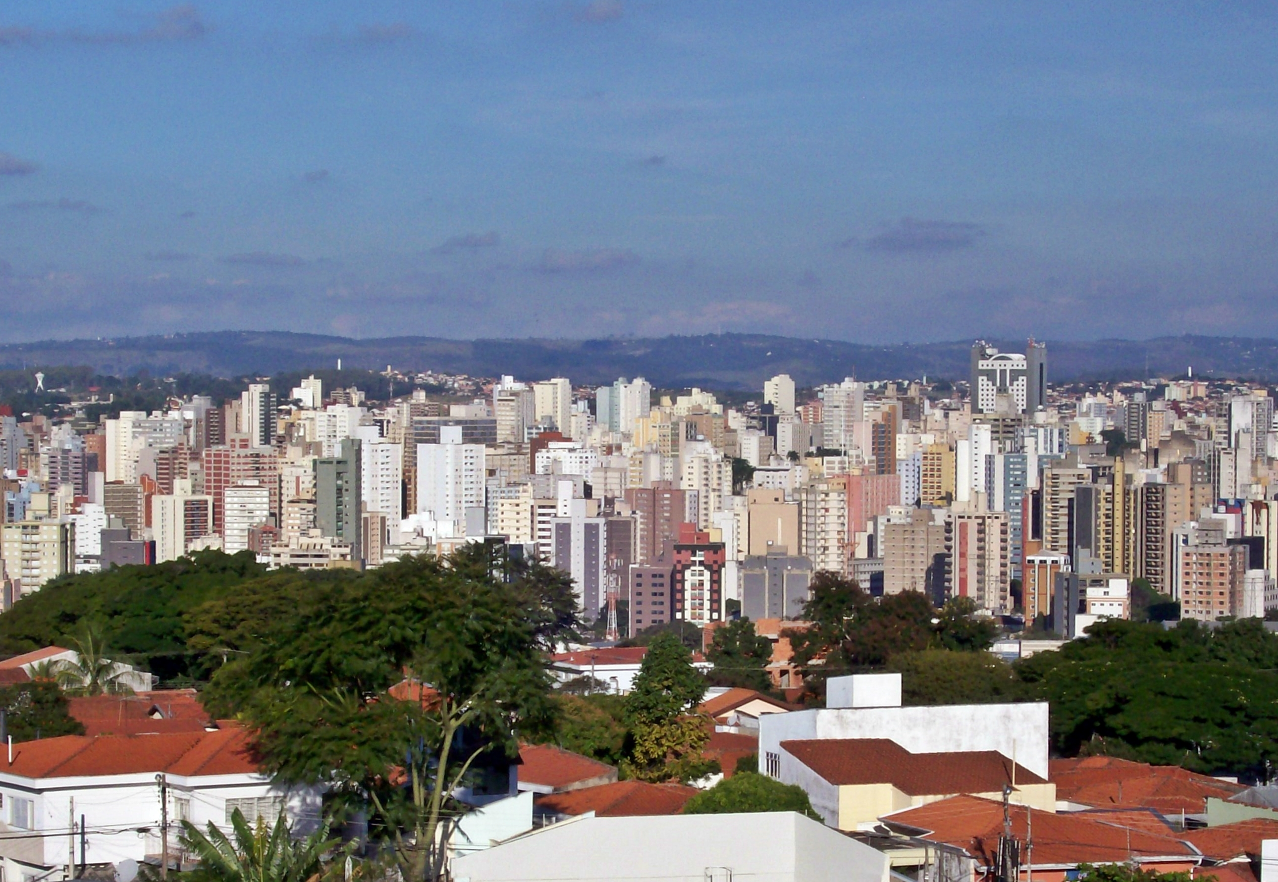 Campinas's downtown as seen from Torre do Castelo ('Castle Tower') belvedere.